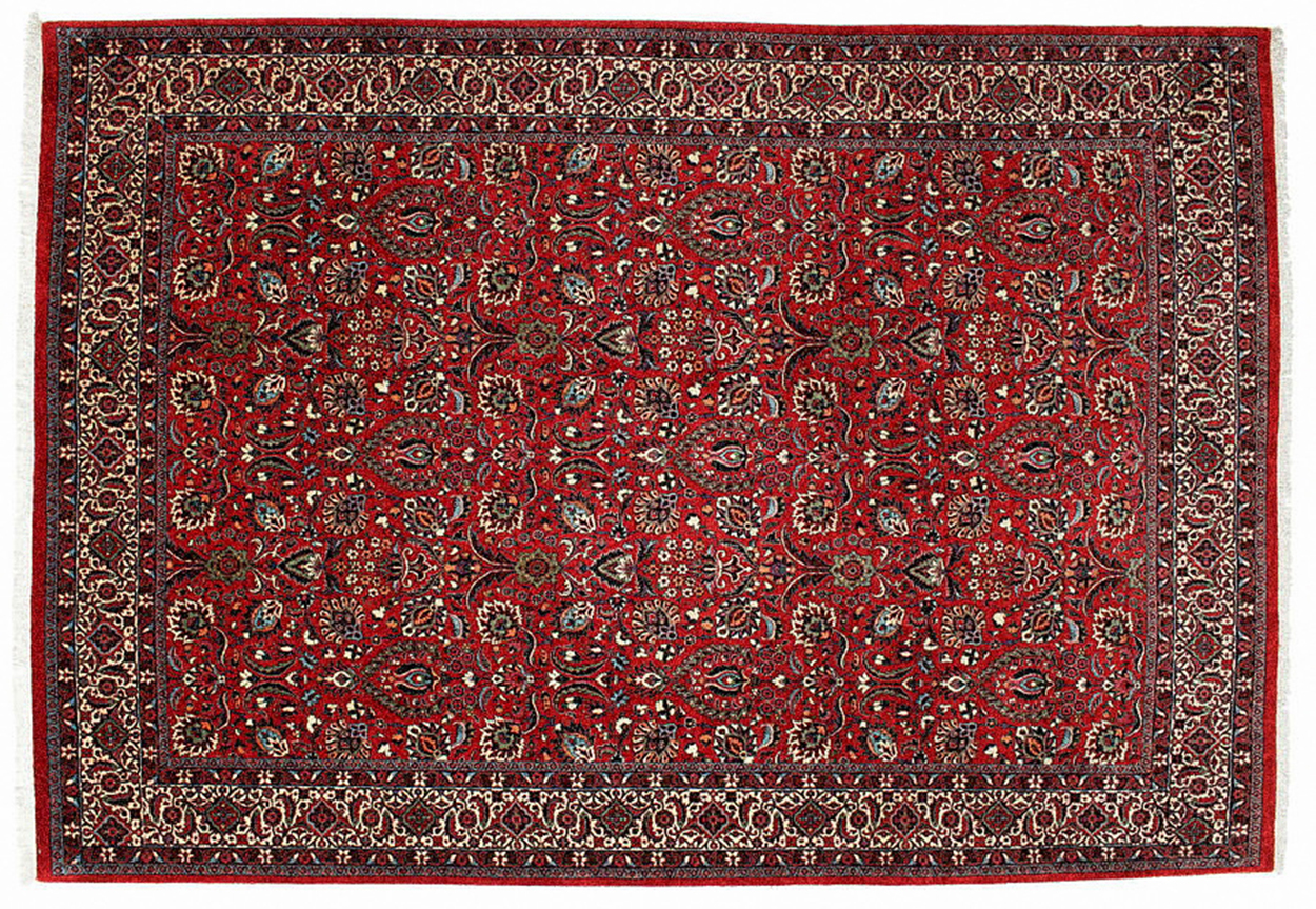 Bukan carpet